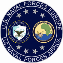 Crest of Commander US Naval Forces Europe/Commander US Forces Africa.